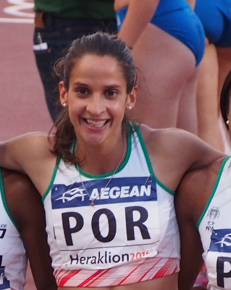 Cátia Azevedo at the group shot after the end of the 4x400 relay race at the 2015 European Team Championships First League.